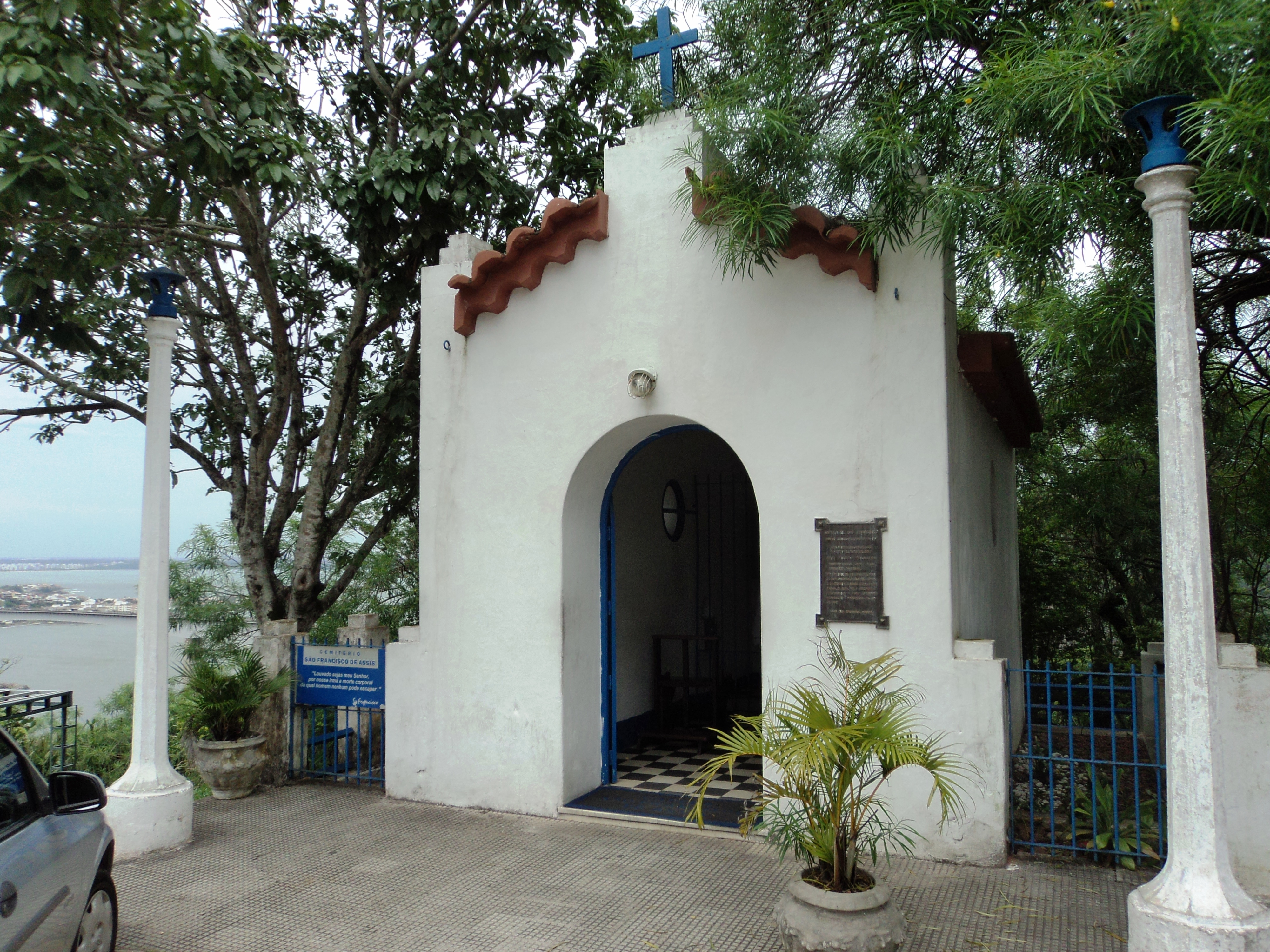 The Francis of Assisi Chapel in the Convento da Penha, in Vila Velha, Espírito Santo, Brazil.